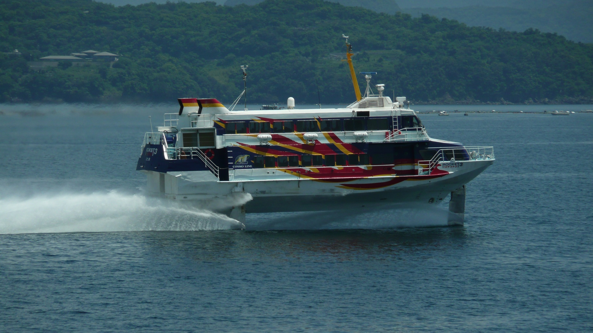 Boeing Jetfoil - Cosmo Line Rocket 3 (Kagoshima Prefecture, Japan) IMO number: 8908208 Callsign: JD2237 Built by Kawasaki Heavy Industries, Kobe